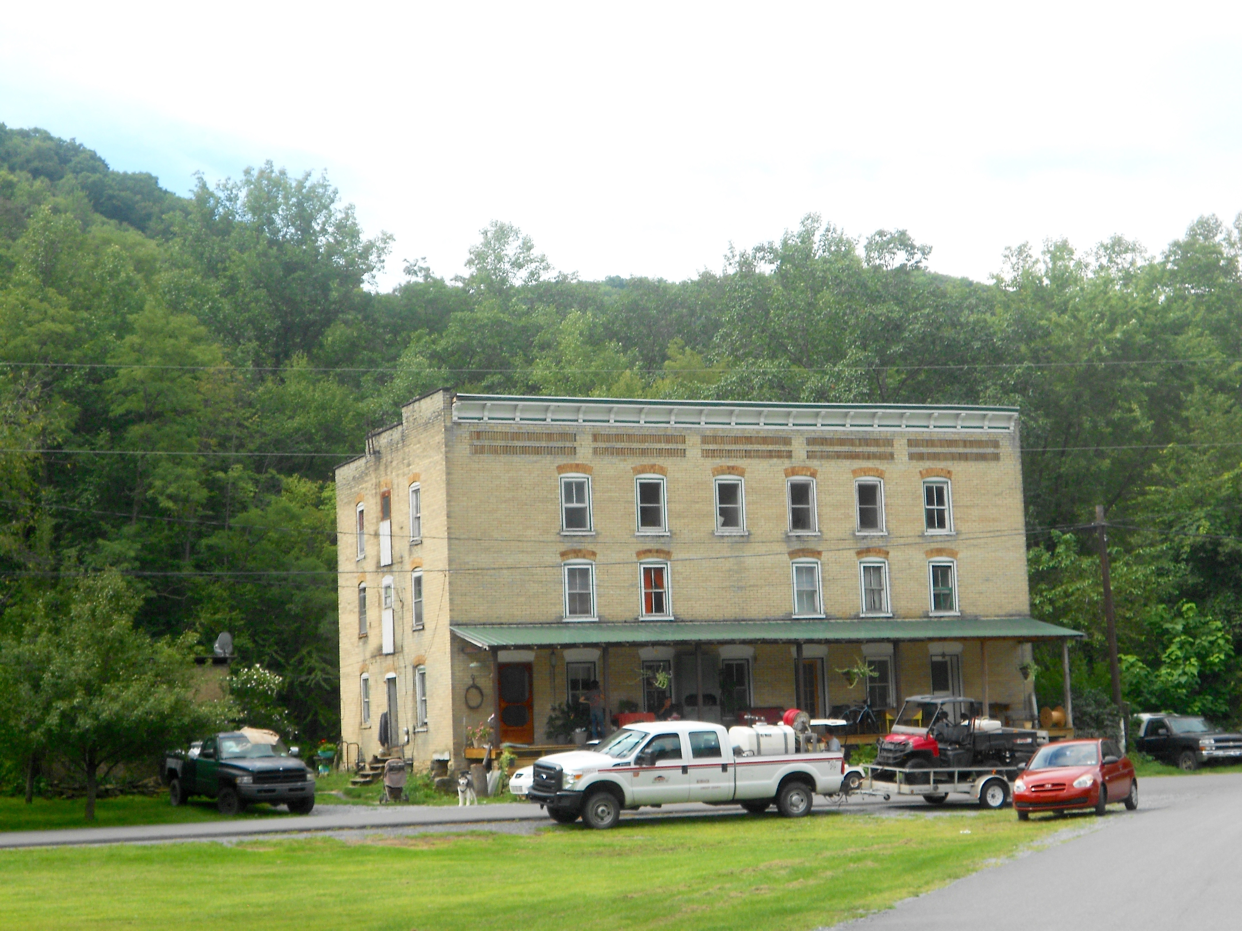 The apparently biggest building in Orviston, Pennsylvania. My guess is that it was the railroad office in the "town"